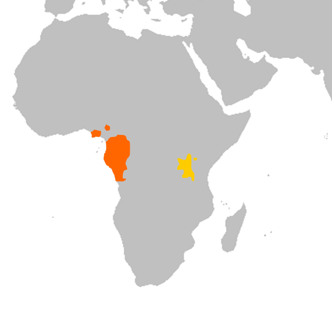 Gorilla (Gorilla) range map. Orange: Western Gorilla (Gorilla gorilla) Gold: Eastern Gorilla (Gorilla beringei)]